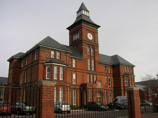 Gloucester, Abbeymead: The Clock Tower. The Clock Tower situated in Abbeymead is now part of a new residential area within Abbeymead, Gloucester and converted into flats.